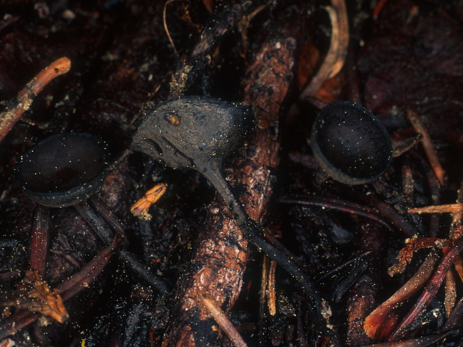 The stalked cup-fungus Plectania nannfeldtii Korf. Photographed in Bassetts, Sierra Co., California, USA.